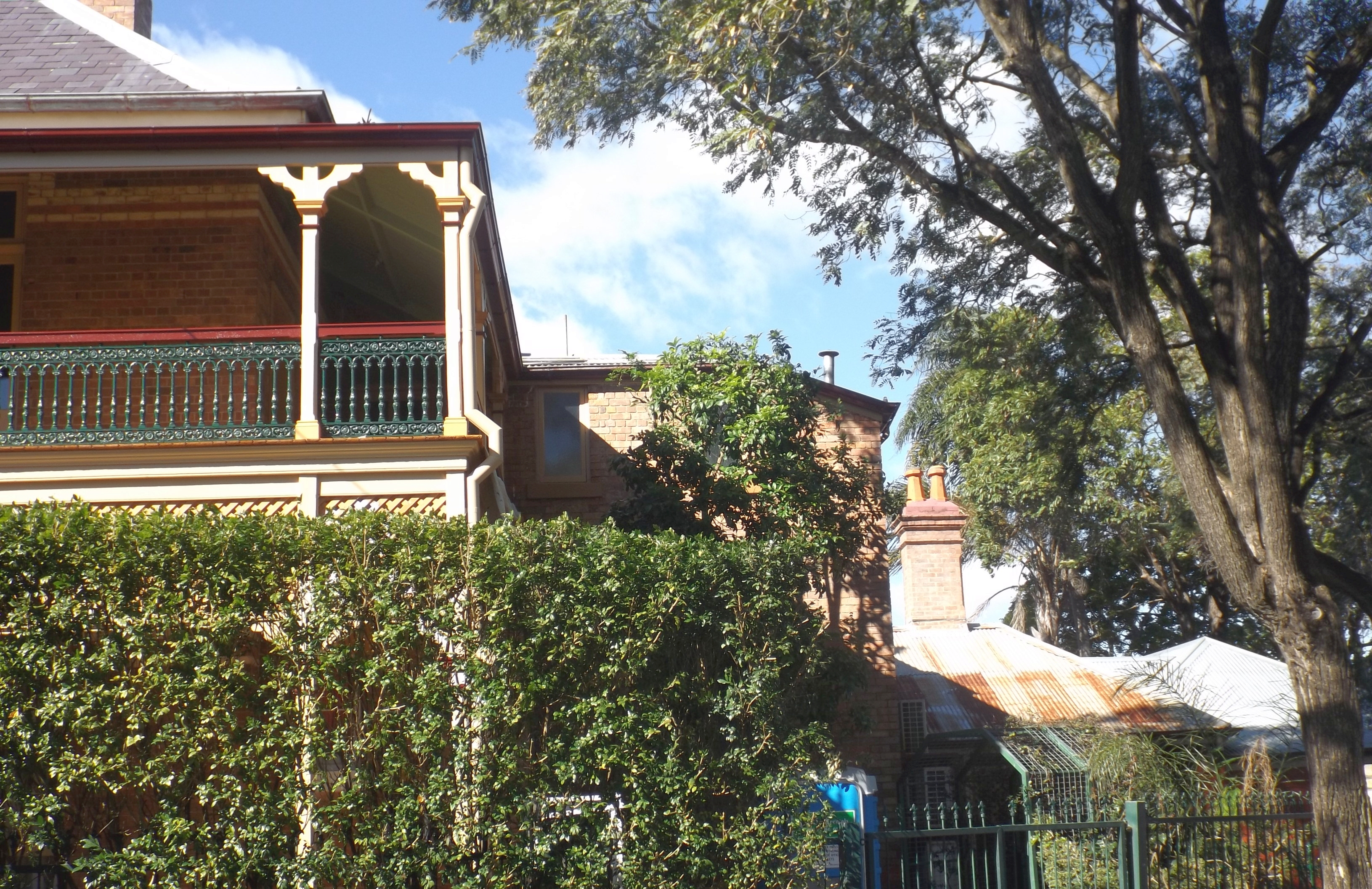 Photo of the side of Kirkston residence at Windsor, Brisbane, Queensland, Australia.